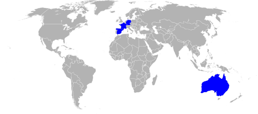 Eurocopter Tiger 2010 Operators